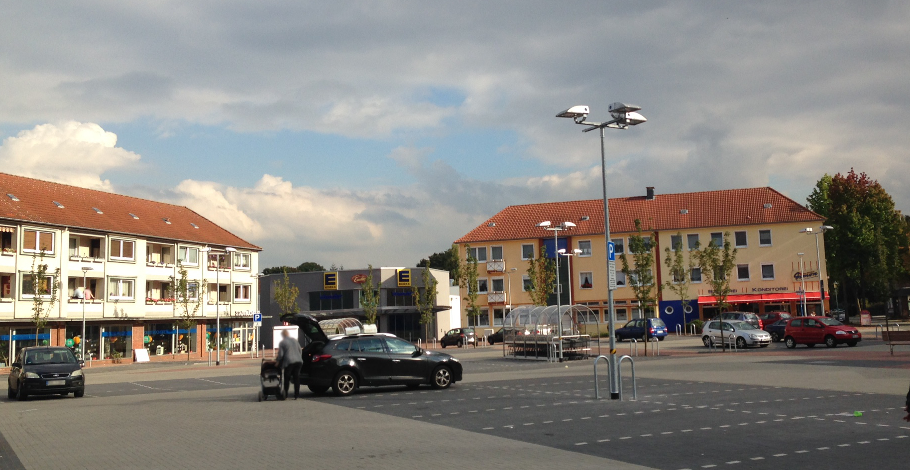 Marketplace of Friedrichsfeld, NRW, Wesel, Voerde, Germany, 2015